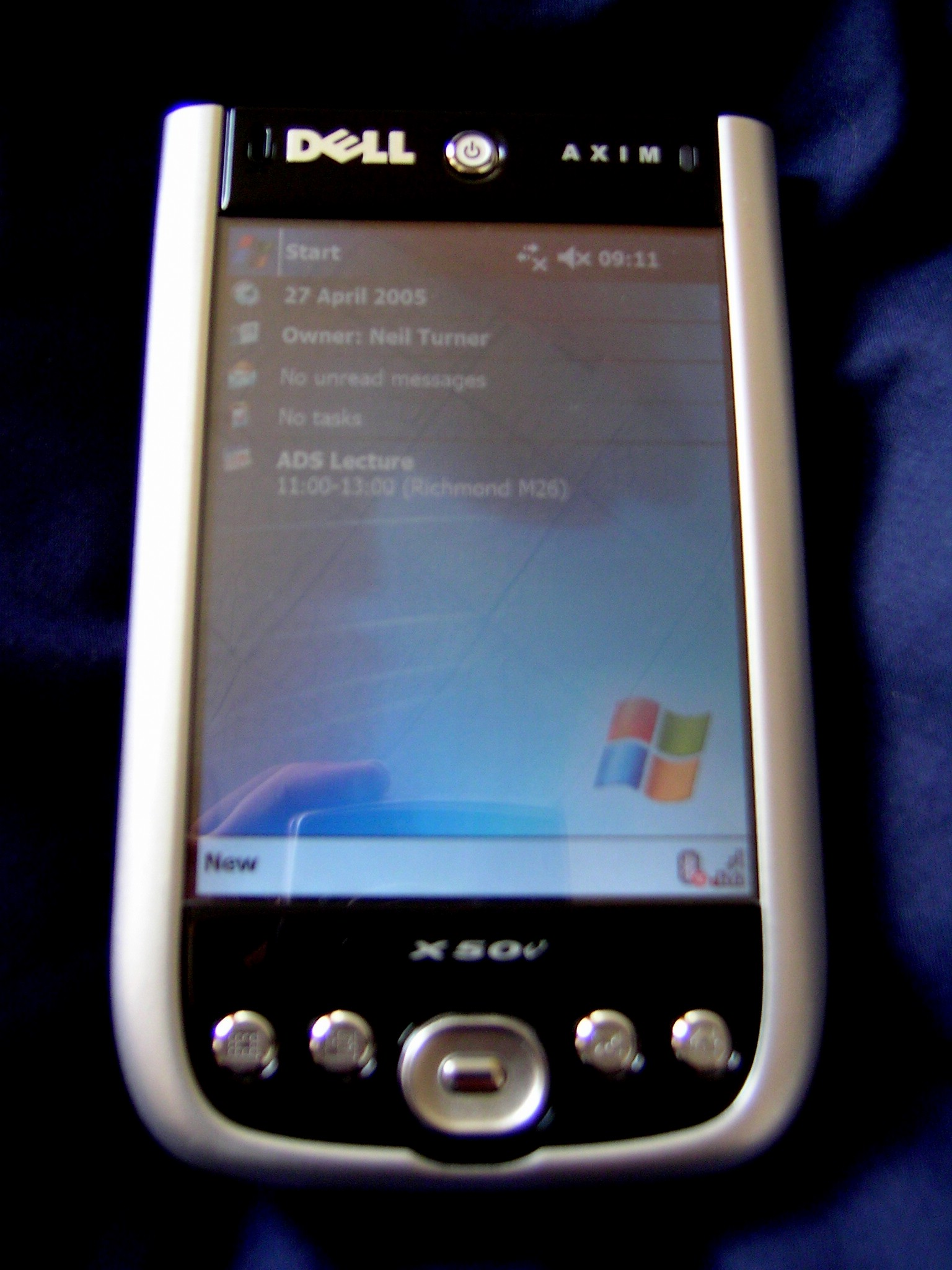 Today screen